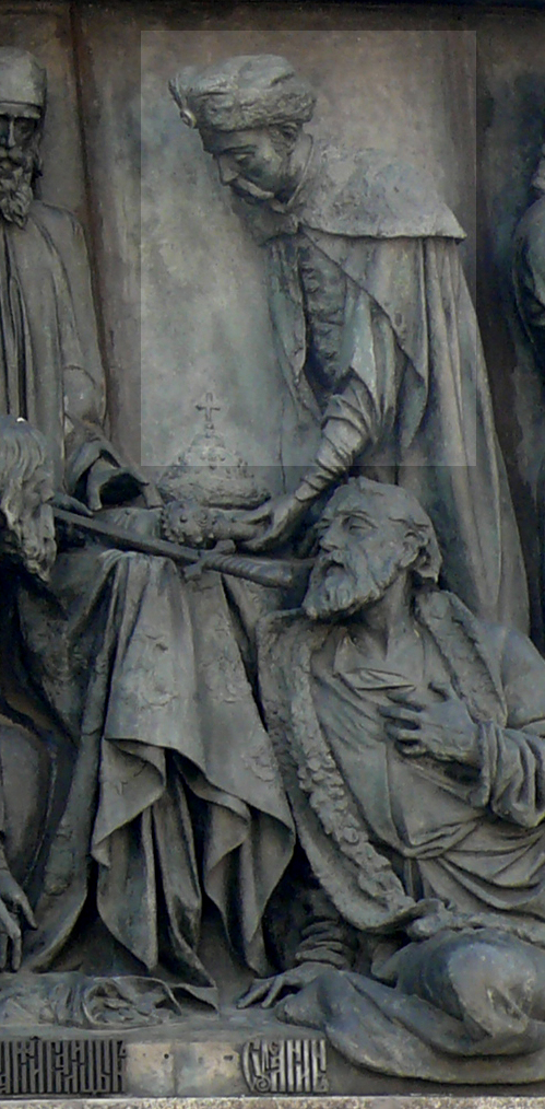 Bohdan Khmelnytsky on the Monument «Millennium of Russia» in Veliky Novgorod